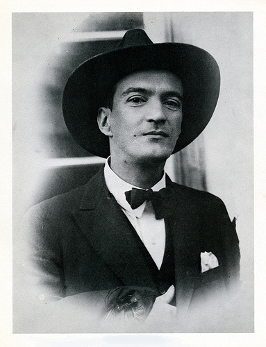 Ricardo Rendon Bravo